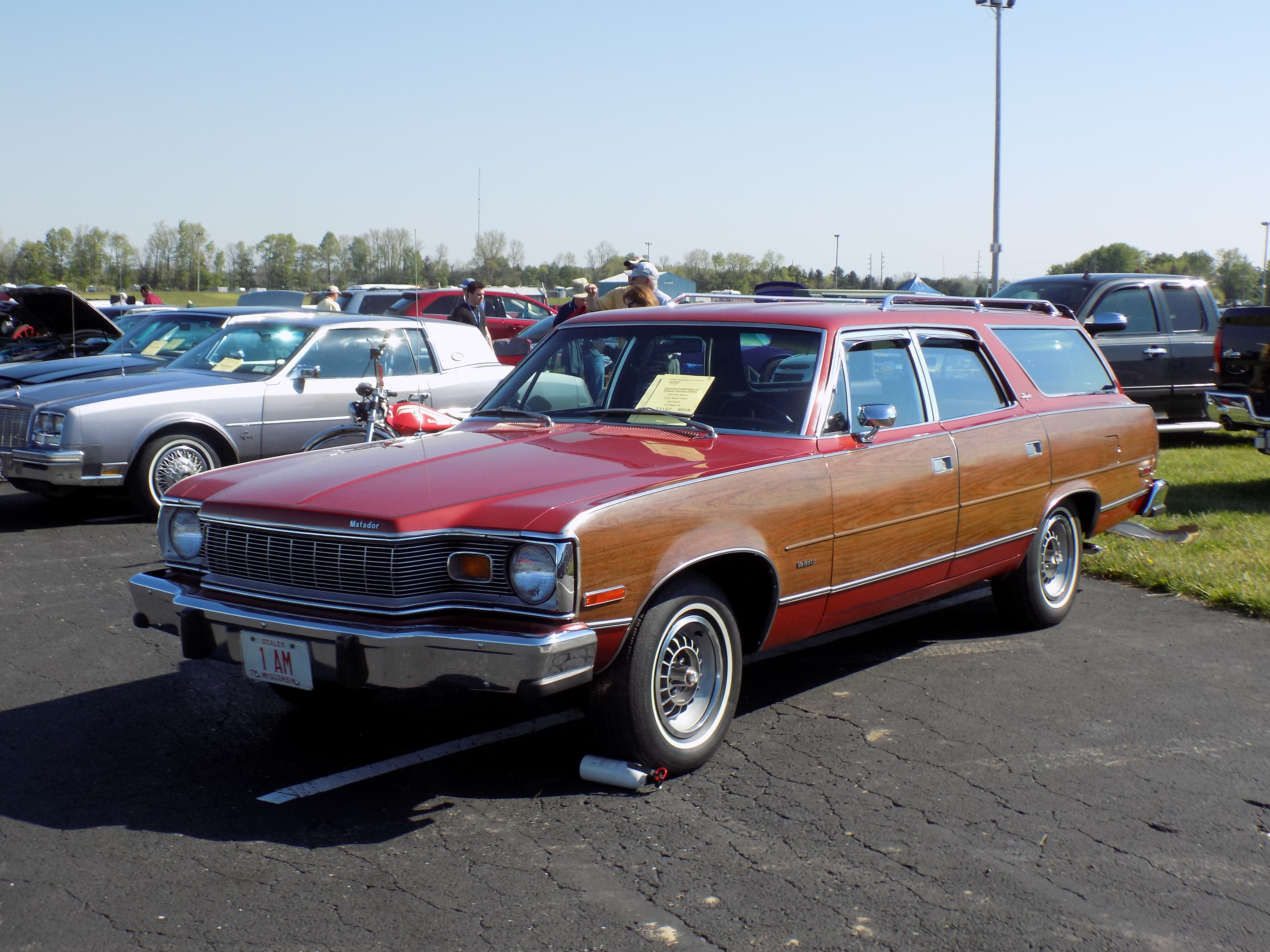 Triple Crown Antique Automobile Club of America (AACA) Classic Car Club Of America (CCCA) First Joint Meet Auburn Auction Park Auburn, Indiana May 2017 . Click here for more car pictures at my Flickr site. Or here for my Car Crazy Tumblr site. Or on Twitter @DVS1mn.